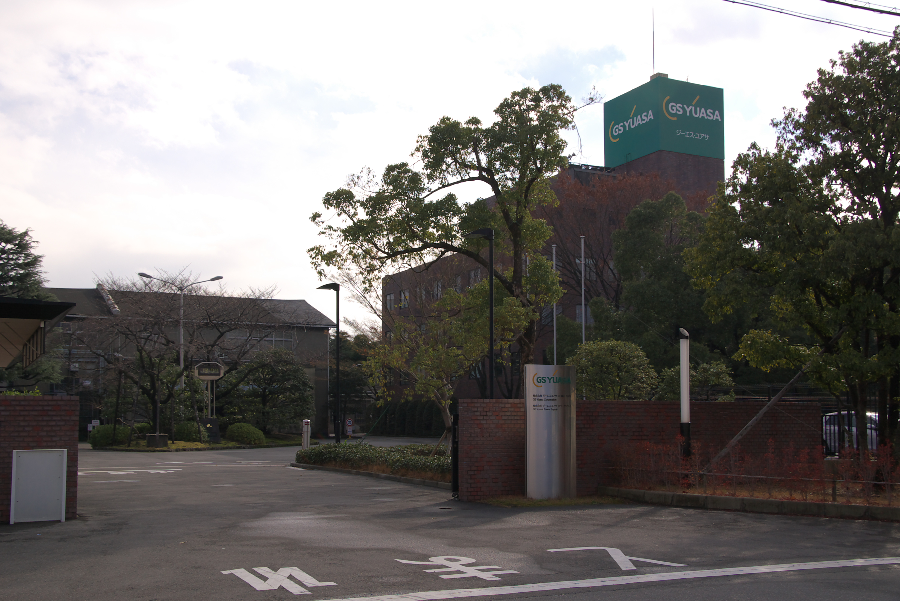 Photograph of the East site of GS Yuasa Corporation Kyoto head office in Minami-ku, Kyoto, Kyoto Prefecture, Japan.